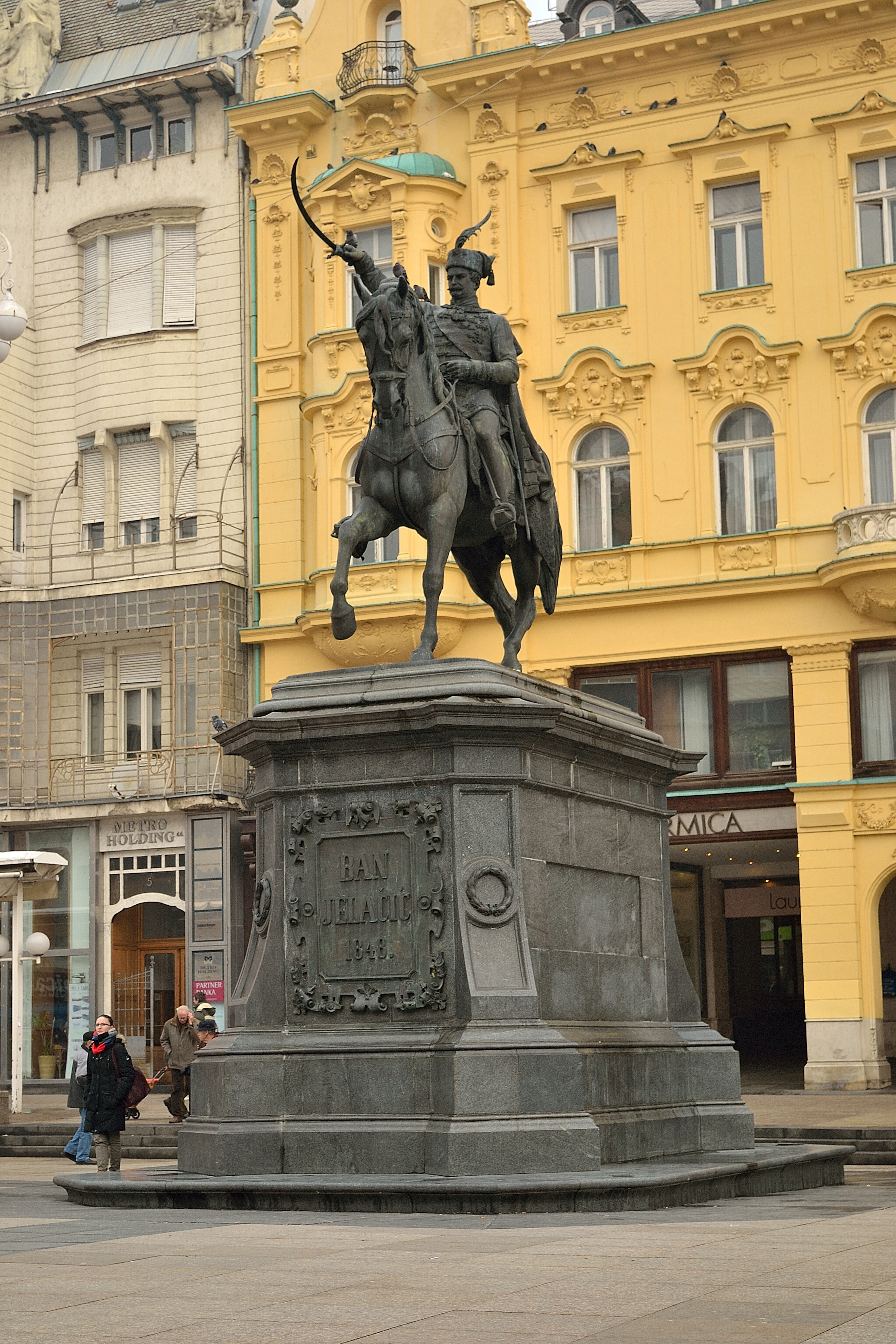 Ban Josip Jelačić statue, Zagreb